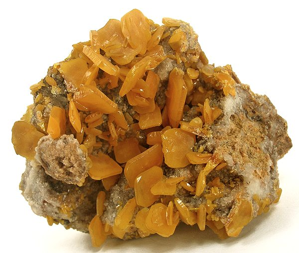 Wulfenite Locality: Hilltop Mine (Hand Mine; Kasper tunnel; Gray Mine; Dunn shaft; Blacksmith shaft; Rhem adit), Rustler Park, California District, Chiricahua Mts, Cochise County, Arizona, USA (Locality at ) Size: 6.1 x 5.8 x 3.9 cm. The Hilltop Mine is one of the legendary old sources for wulfenite in the American Southwest, now long forgotten by most people, and seldom seen in specimens for sale to the collector as well. This is an outstanding small cabinet specimen from the collection of John Ydren of Los Angeles. It has sharp crystals of classic orangey-butterscotch color to 1 cm, on matrix. He obtained it from the Pasadena City College sale in the 1970s, and they in turn got it from a "Vance" collection. Another old label shows that it was in the collection of a Colonel Jenn in 1957 (or 1937?), and as well there is an ancient Schortmann’s label. See Mindat: for more information on this historic locality which was operated from the late 1880s. Most specimens were recovered in the 1890s until about 1910, I am told.